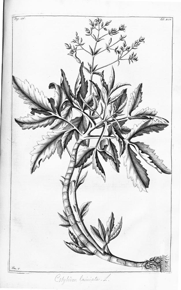 Cotyledon laciniata - Tafel 95 aus Rumpfs Herbarium Amboinenses Band 5